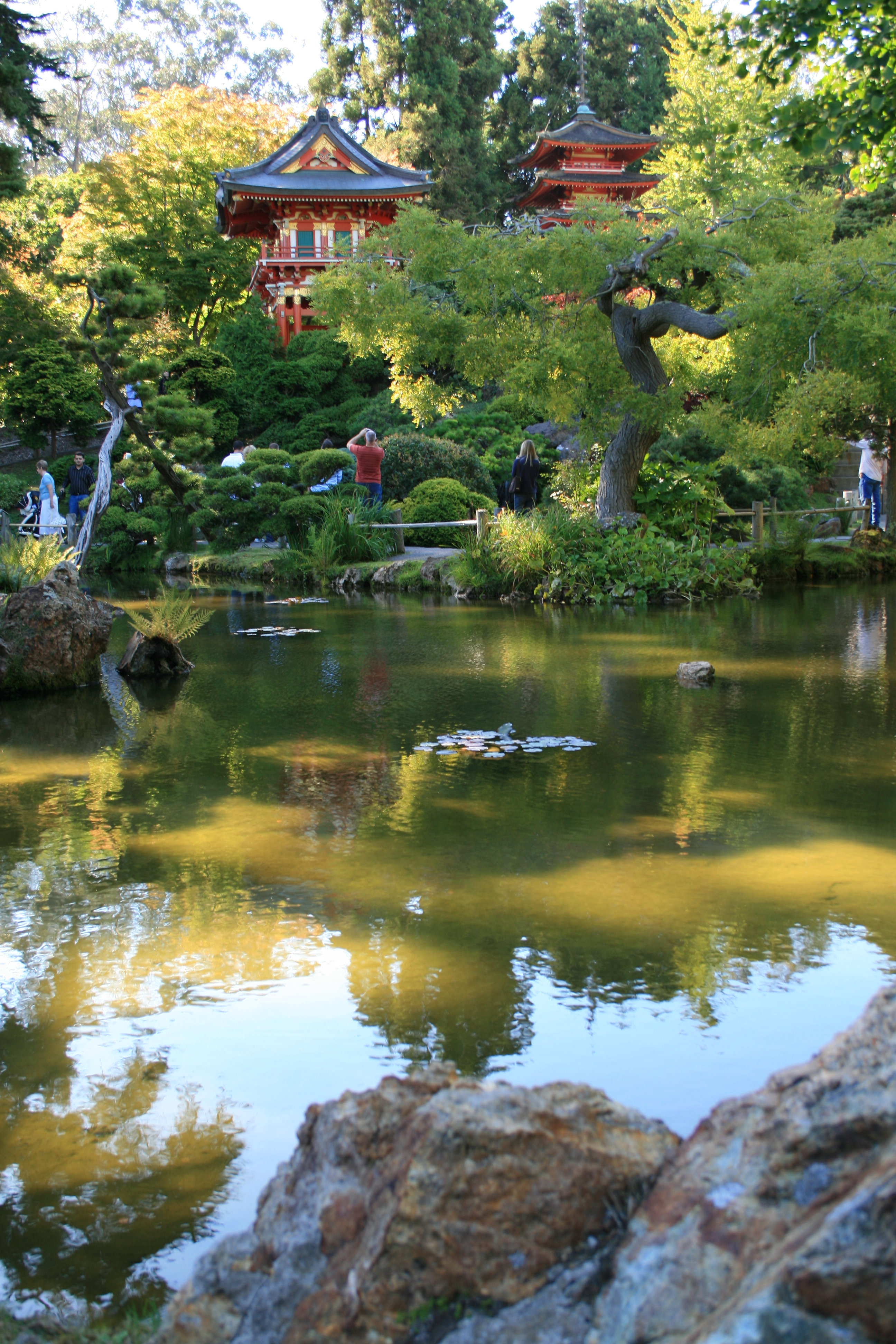 Taken in Japanese Tea Gardens, san francisco, CA.